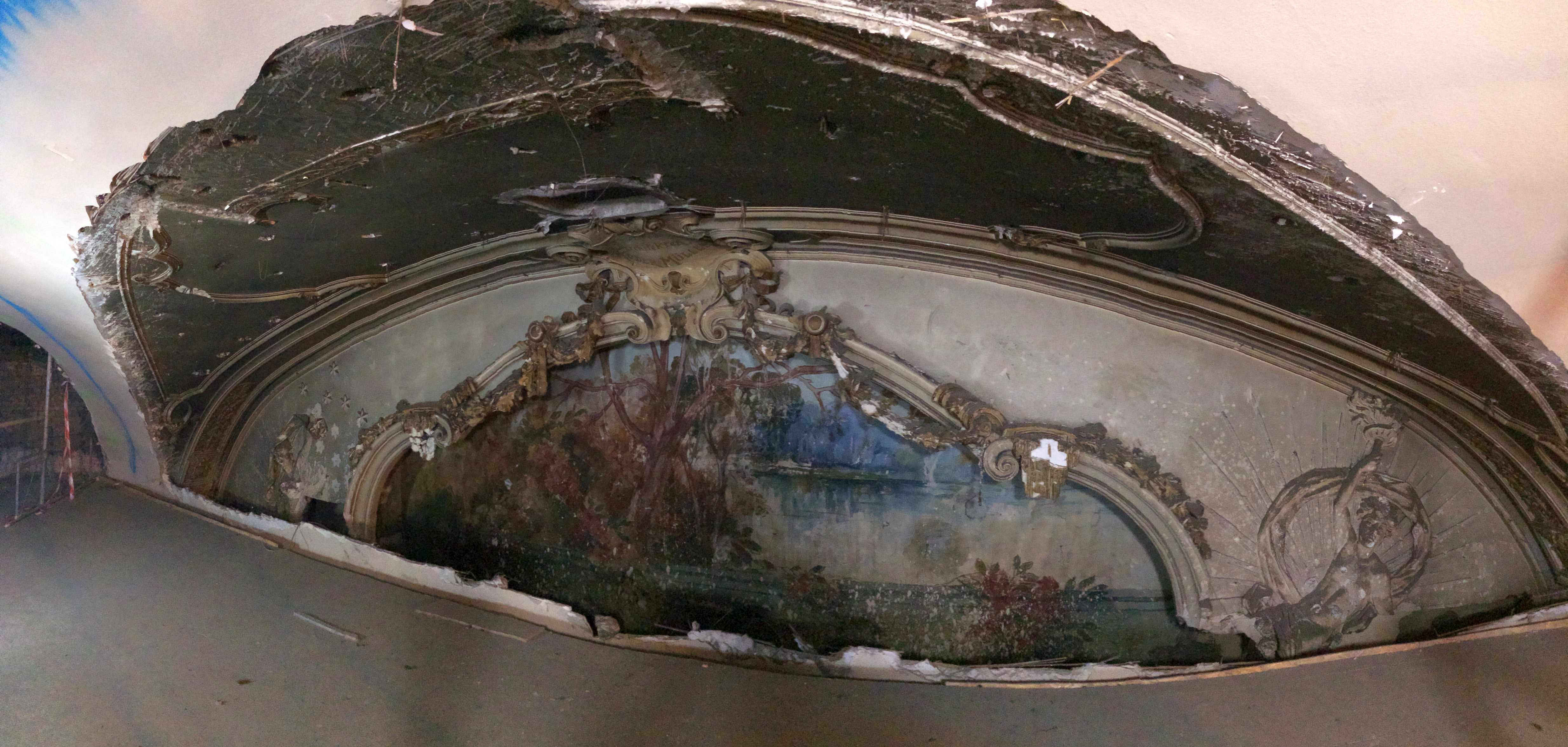 Painting probably by Carl Jordan (1863-1946). Stucco by Unknown.